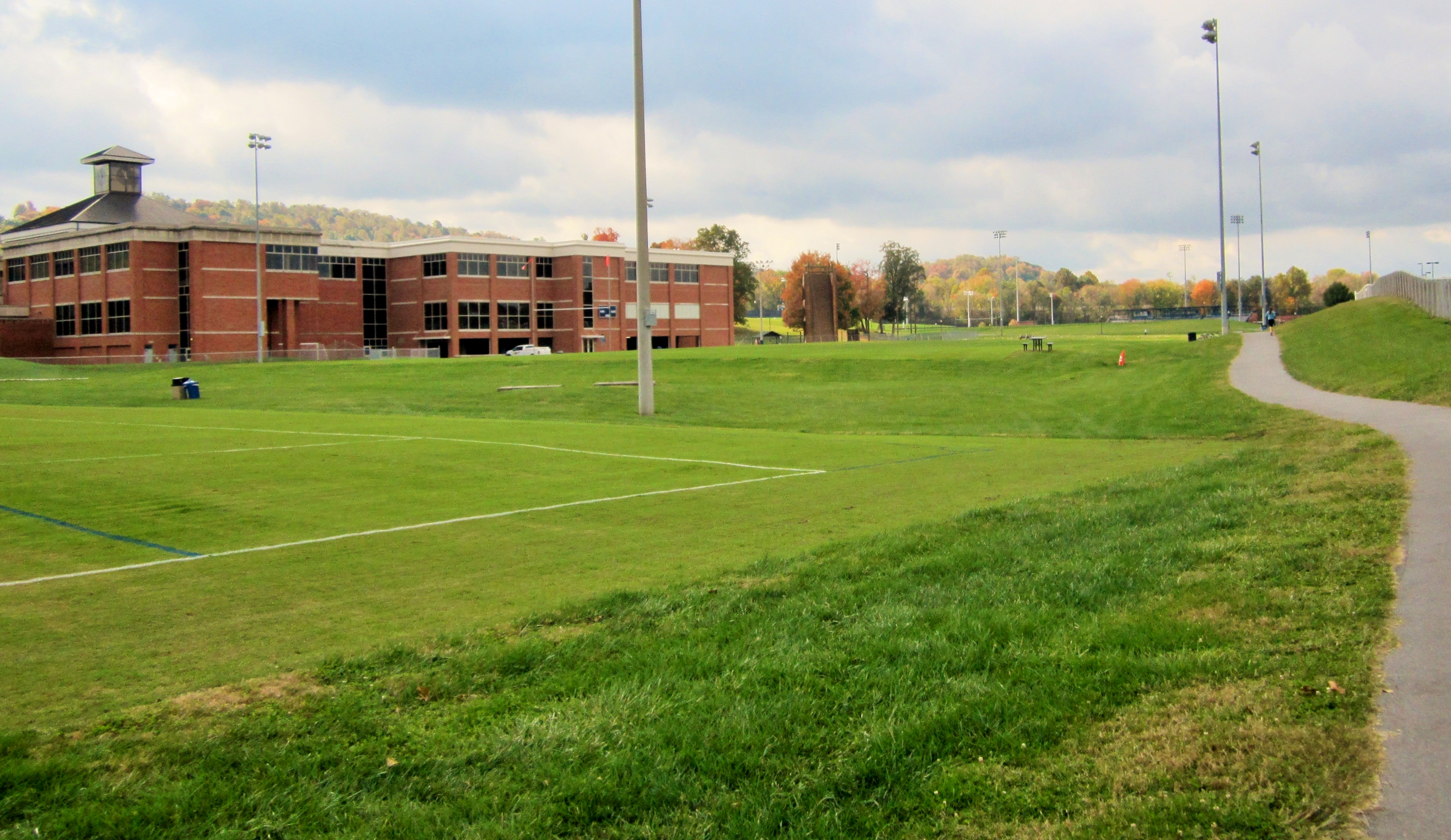 ETSU Basler Center